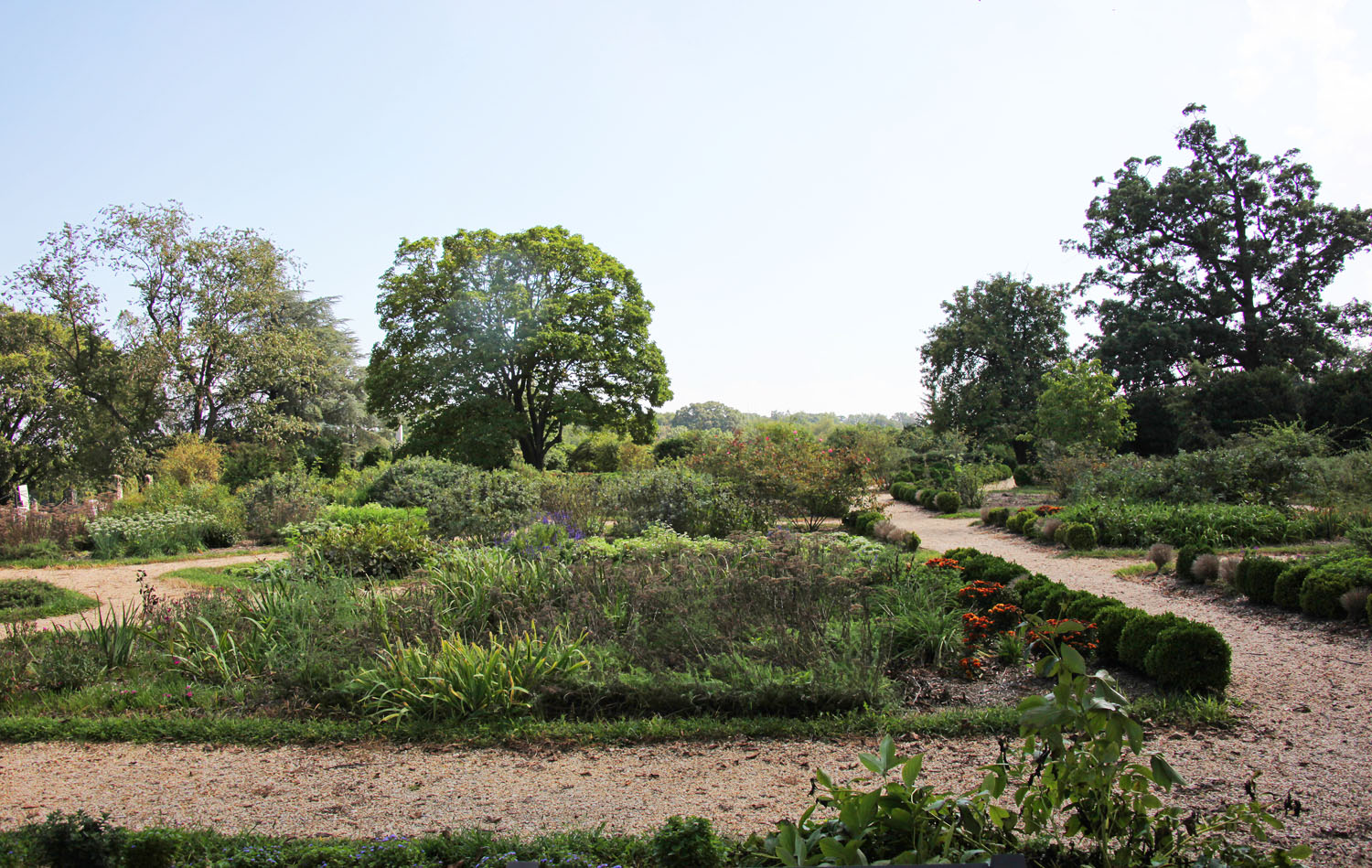 Looking south at the Colonial Revival flower garden of Arlington House (the Robert E. Lee Memorial) on the grounds of Arlington National Cemetery in Arlington, Virginia.